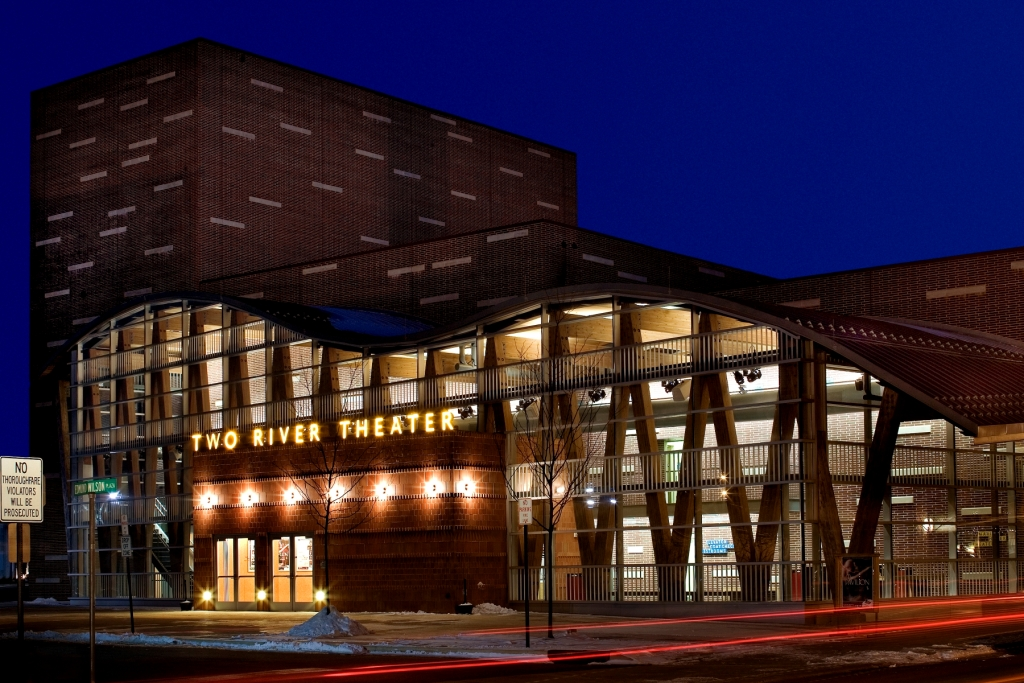 Two River Theater (Red Bank, New Jersey) at night.